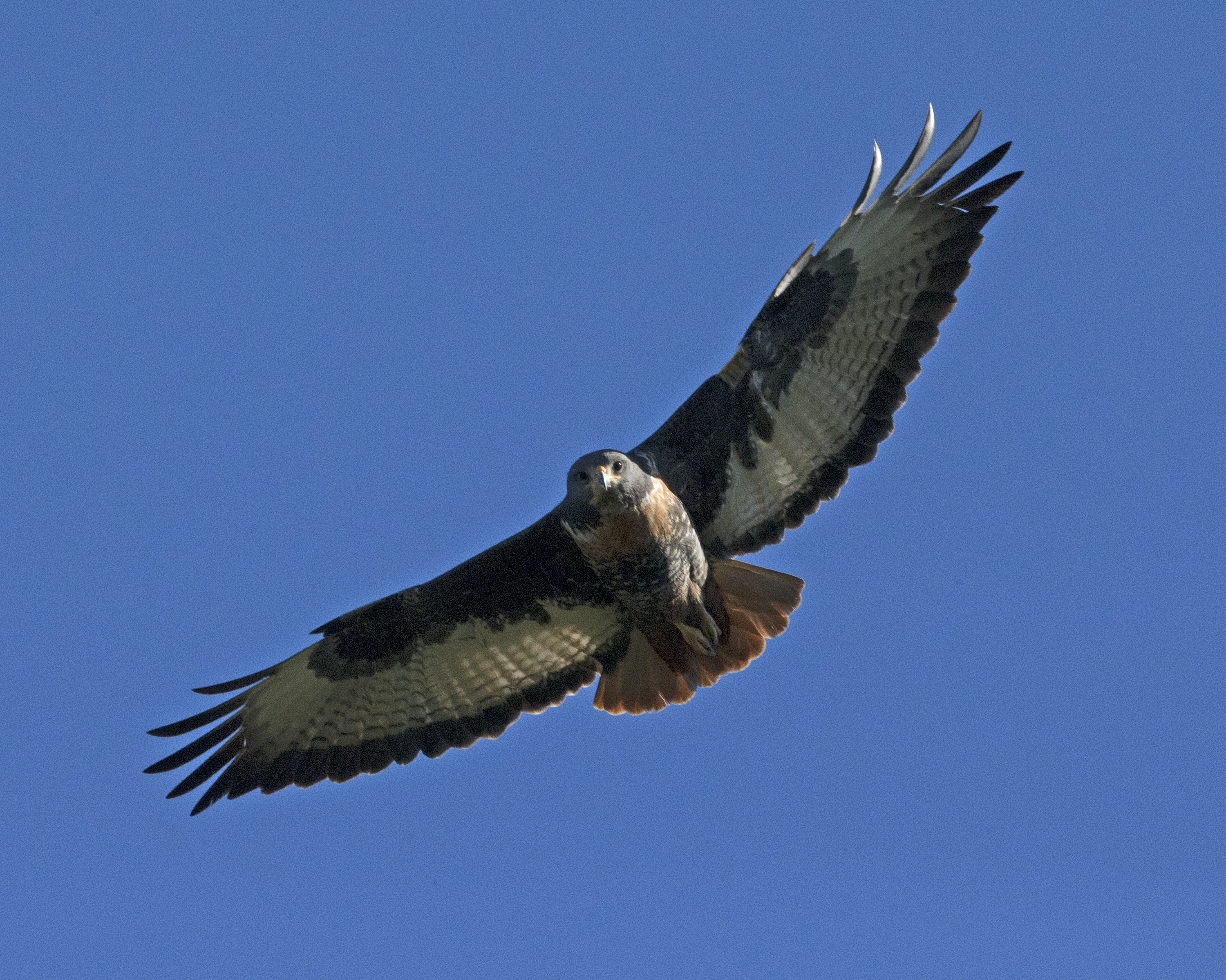 Jackal Buzzard Buteo rufofuscus Stellenbosch, South Africa August 2016 CF2P5303